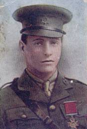 Colourised photograph of British World War I Victoria Cross recipient Captain William Barnsley Allen, RAMC.